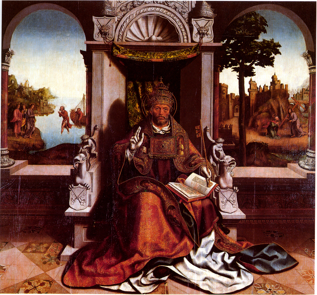 from an altarpiece of the Cathedral of Viseu